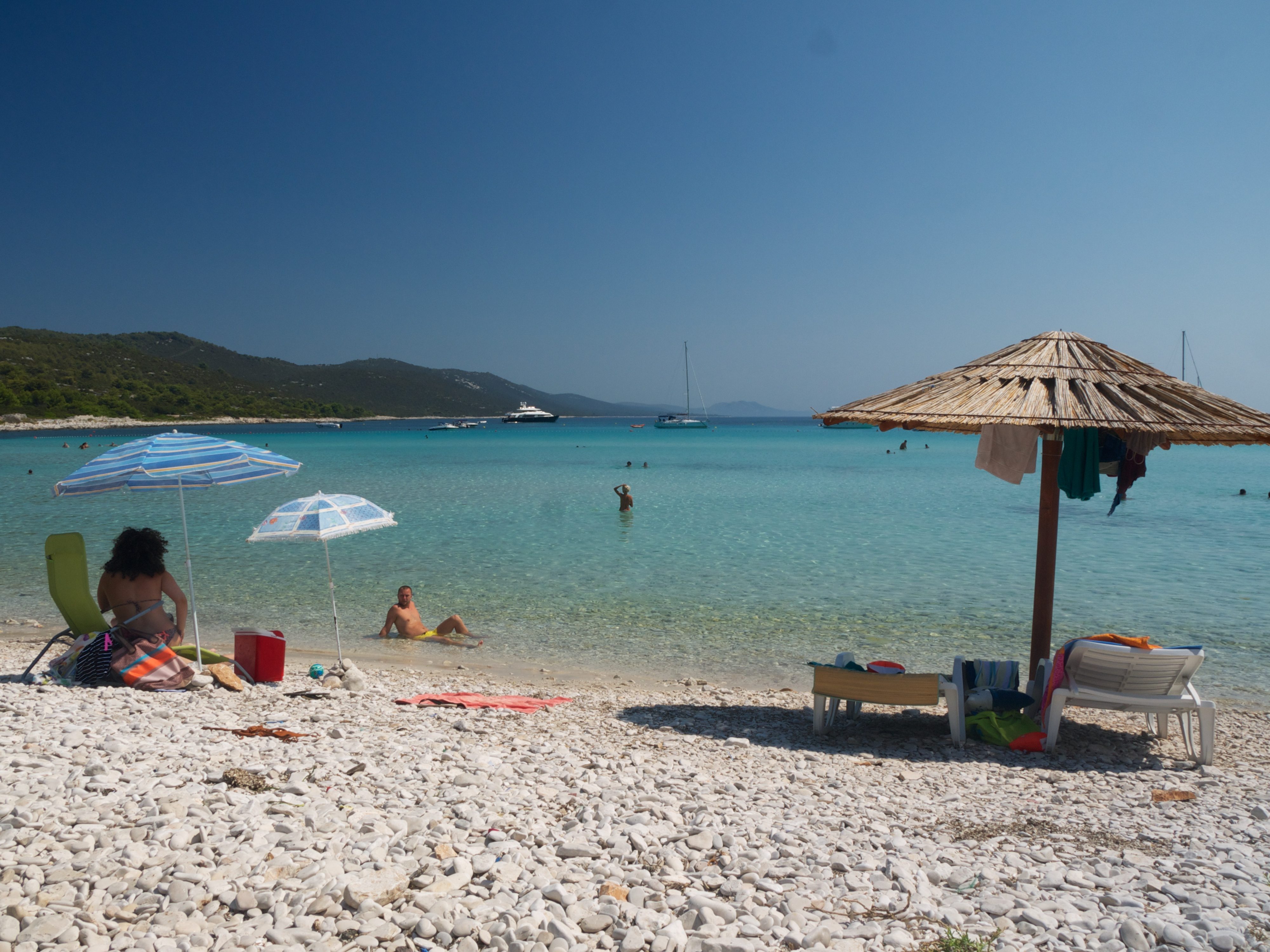 Beach Sakarun.